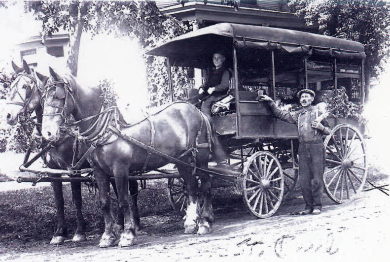 Jewish fruit peddlers. Irving Cooper was ten years old when the photo was taken--Irving is in the drivers seat. He is working with "Zadie" (Grandfather) Morris. Date: 1928 Source: 14 cm x 20.1 cm Format: Black and white photo Subject: Business and industry; St. Paul--businesses; Peddlers; Peddling; Horse drawn cart Coverage: St. Paul; Ramsey; Minnesota; United States Local Identifier: 1090P Link to our record: From the Steinfeldt Photography Collection of the